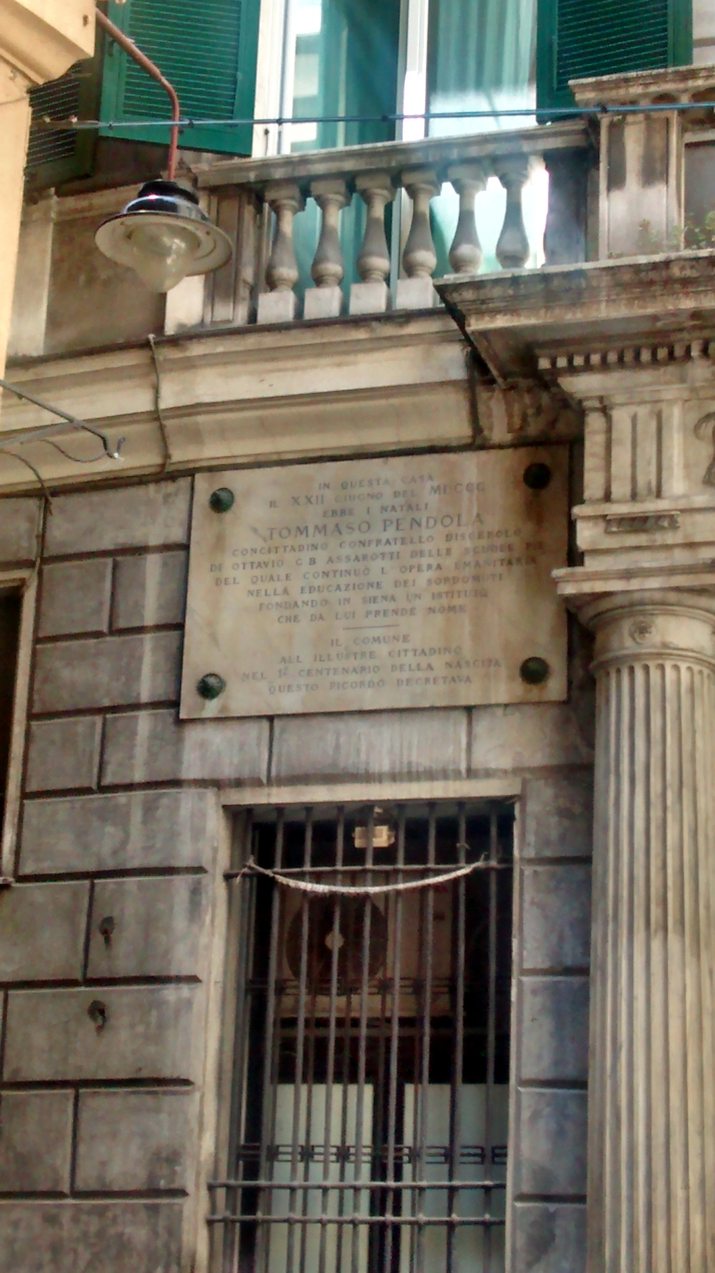 Plaque celebrating one hundred years since the birth of Tommaso Pendola, located in Piazza Cinque Lampadi, Genoa